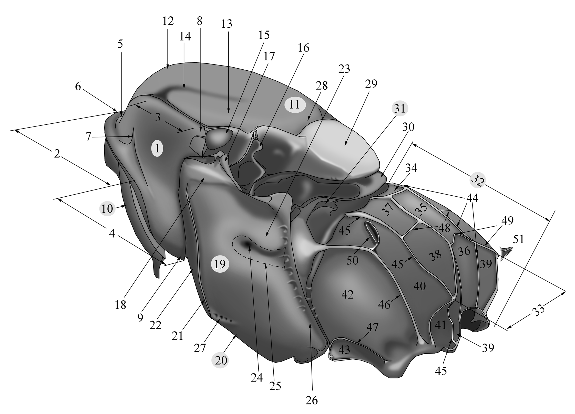 Fig. 3: Morphology of thorax (D): (1) pronotum; (2) collar; (3) pronotal rige; (4) pronotal base; (5) transverse furrow of pronotum; (6) front margin of pronotum; (7) epomia; (8) hind corner of pronotum; (9) lower corner of pronotum; (10) propleura (propleurum, prosternum, propleuron); (11) mesonotum; (12) median lobe; (13) lateral lobe; (14) notauli (parapsidae); (15) tegula; (16) axillary tongue (projection); (17) subalar tubercle; (18) subalarum; (19) mesopleura (mesopleurum, mesopleuron); (20) mesosternum; (21) prepectal carina (epicnemial carina); (22) prepectus (epicnemium); (23) speculum; (24) mesopleu¬ral fovea; (25) area of mesopleural fovea; (26) mesopleural suture; (27) sternaulus (-i); (28) scuto-scutellar groove; (29) scutellum; (30) postscutellum; (31) projection of hind margin of metanotum; (32) propo¬deum; (33) horizontal part of propodeum; (34) area basalis (basal area); (35) area superomedia (areola); (36) area posteromedia (petiolar area); (37) area superoexterna (first lateral area, area externa); (38) area dentipara (second lateral area); (39) area posteroexterna (third lateral area); (40) area spiraculifera (first pleural area + second pleural area); (41) third pleural area (apical pleural area); (42) area metapleuralis; (43) area coxalis (juxtacoxal area); (44) median longitudinal carina (lateromedian longitudinal carina); (45) lateral longitudinal carina (carina dentipara exteriores); (46) carina metapleuralis (pleural carina); (47) coxal carina (juxtacoxal carina); (48) costula; (49) apical transverse carina (carina dentipara interiores, posterior transverse carina); (50) spiracle; (51) apophysis (crest).